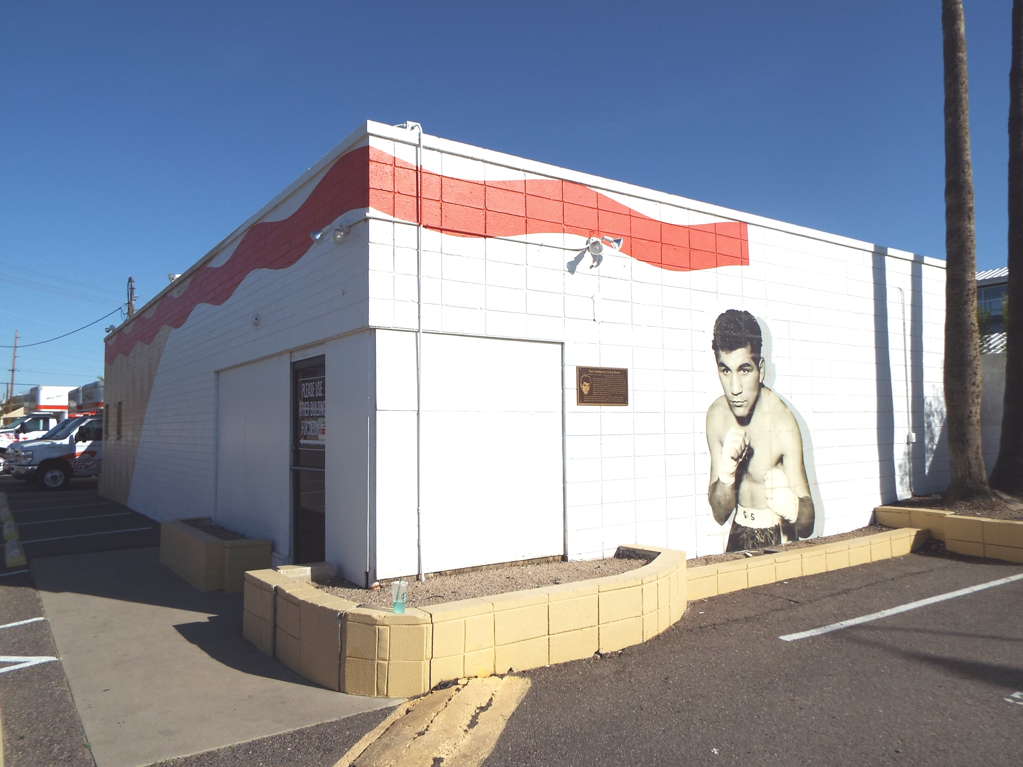 This location which once housed the Living Room Lounge was built in 1930 and is located at 4007 E. Camelback Road in Phoenix, Arizona. The building housed the Silver Poodle Cocktail Lounge prior to 1968, when boxing welterweight Tony DeMarco became the owner of the property and established what he called the Living Room Lounge. DeMarco no longer owns the property which now belongs to the U-Haul Co.